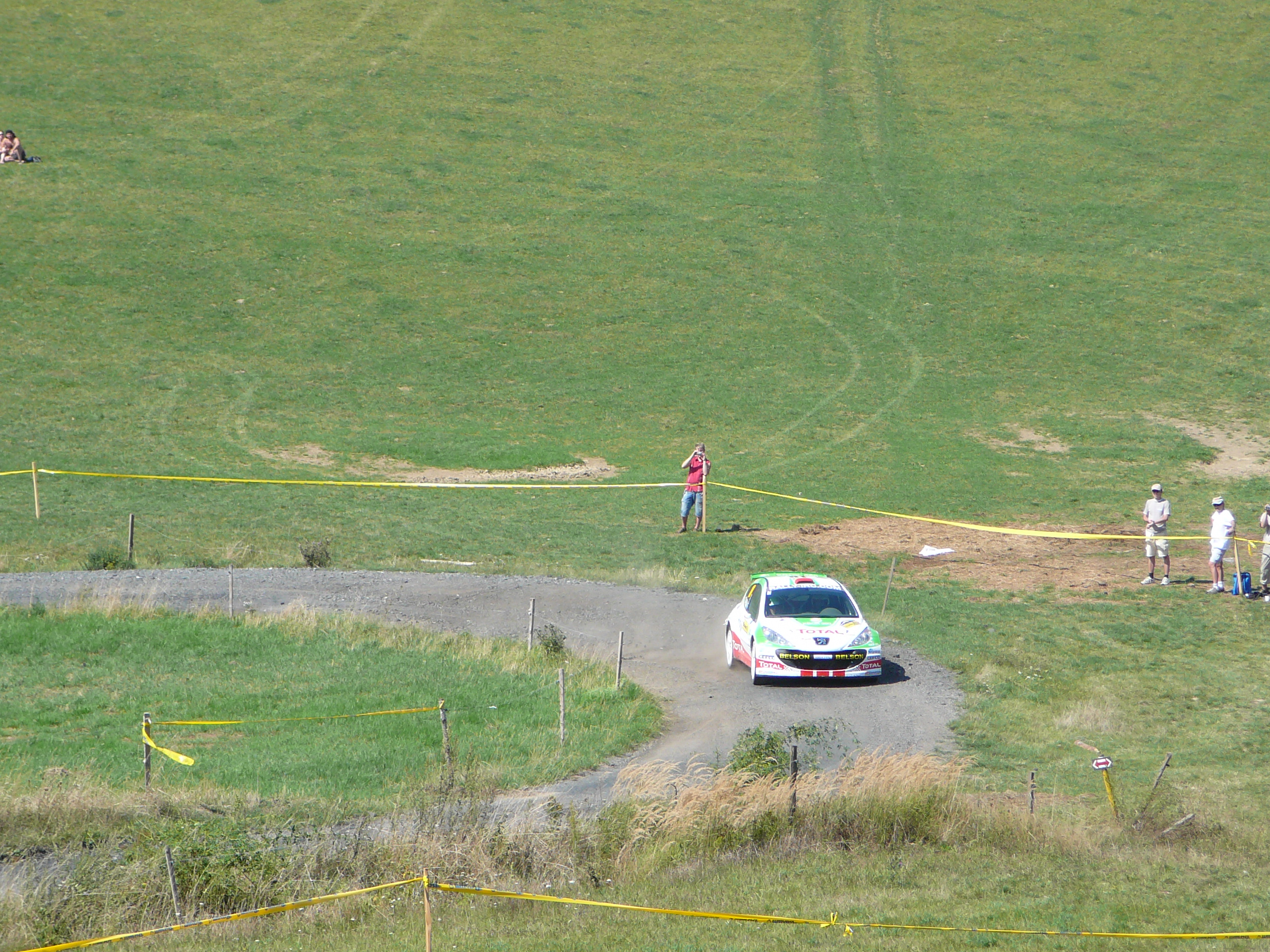 Barum Rally Zlín